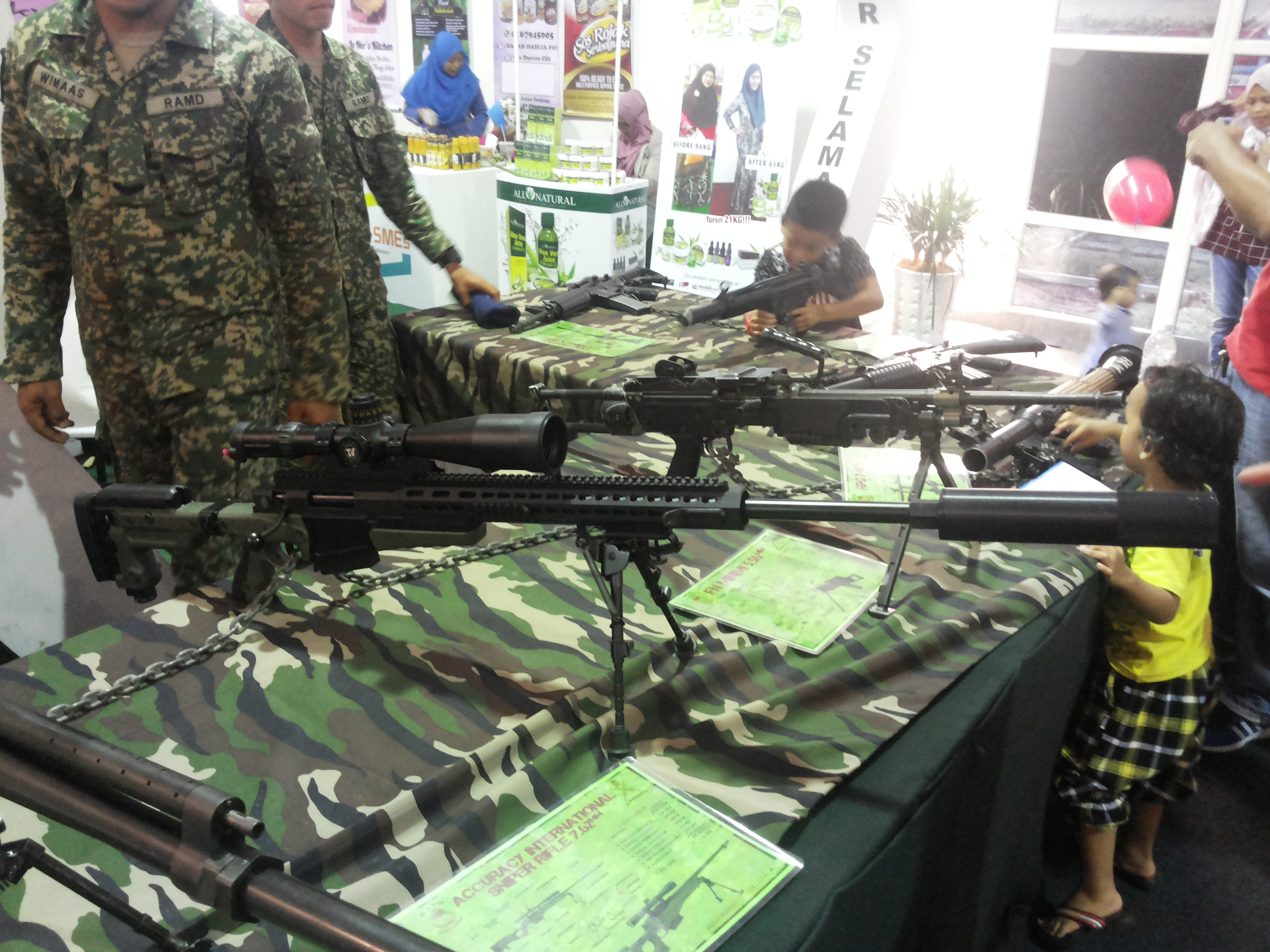 An Accuracy International AXMC308 sniper rifle with attached suppressor, belonging to the Malaysian Army.